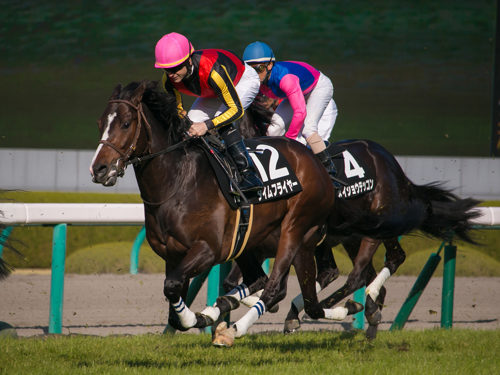 Time Flyer (Racehorse of Japan).